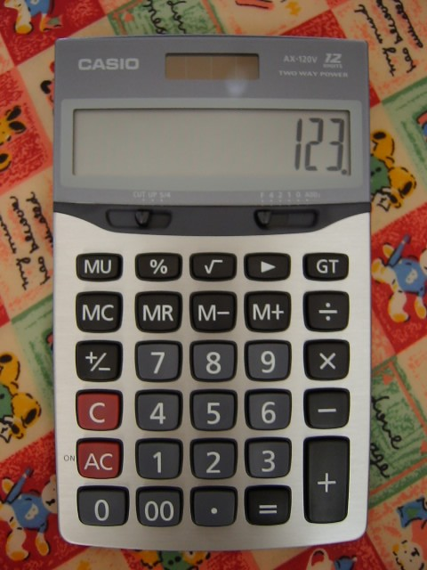 Casio calculator AX-120V